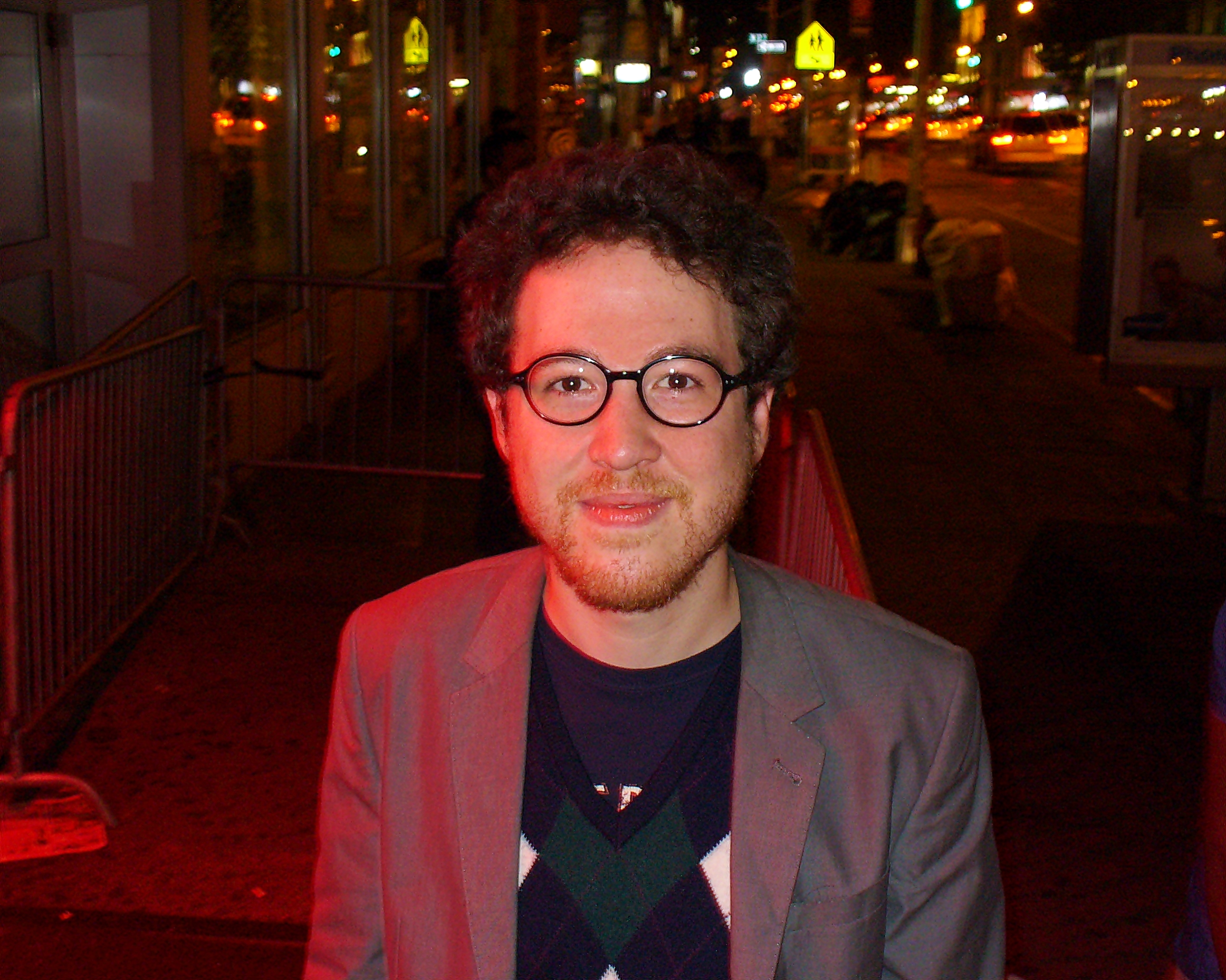 writer Alex Pareene at writer Brian Moylan's birthday party at Rush in New York.